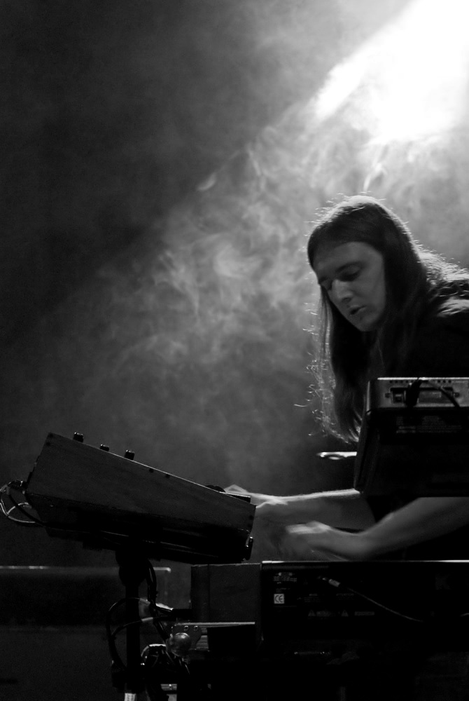 Michał Łapaj of Polish rock band Riverside